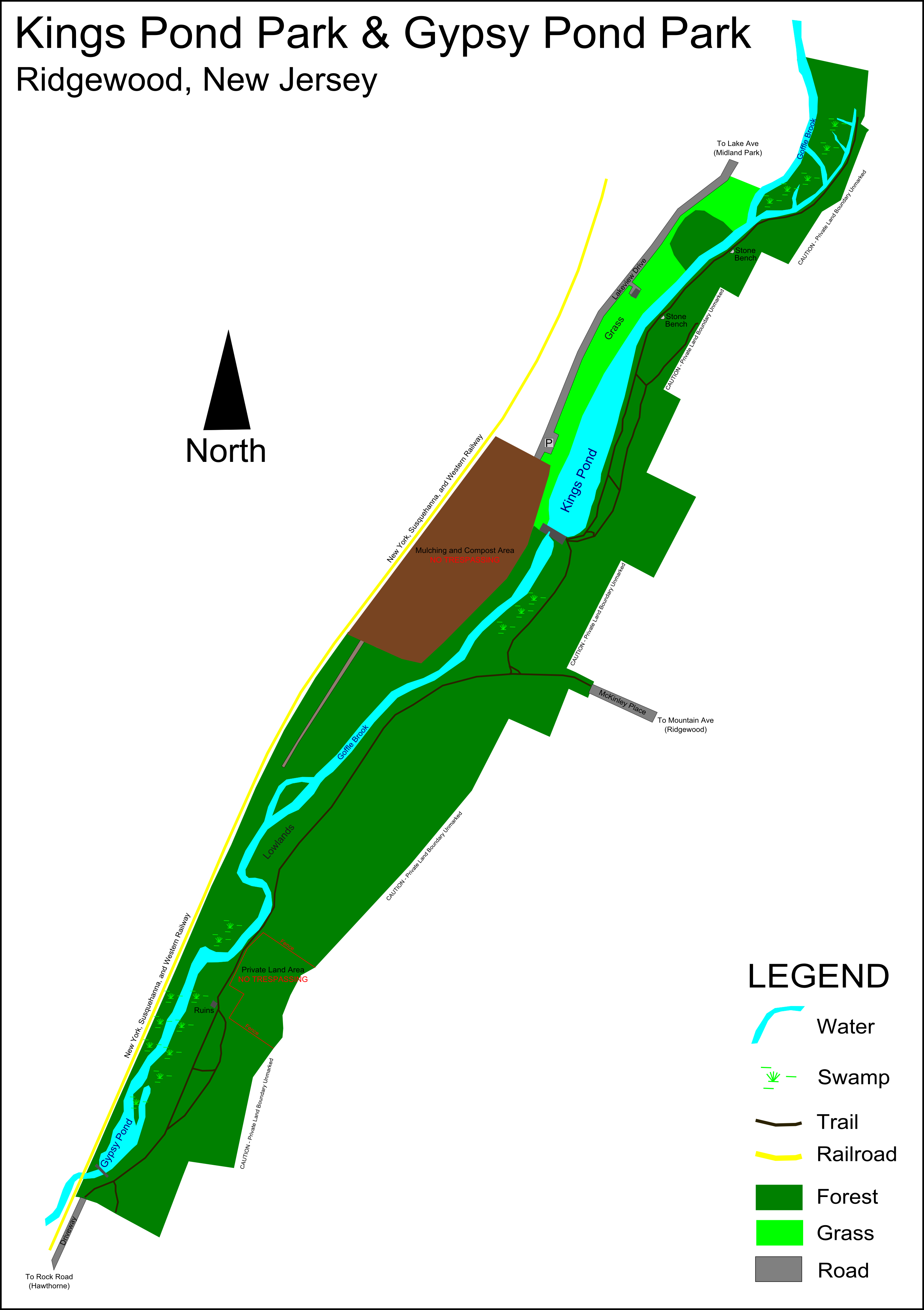 Map of Kings Pond Park and Gypsy Pond Park in Ridgewood. Created in Inkscape using orthoimagery base with ground truthing. Park boundaries approximate -edge of forested areas may overlap private property. This map is an independent work and has not been endorsed by the Village of Ridgewood Division of Parks, Shade Tree, and School Grounds.